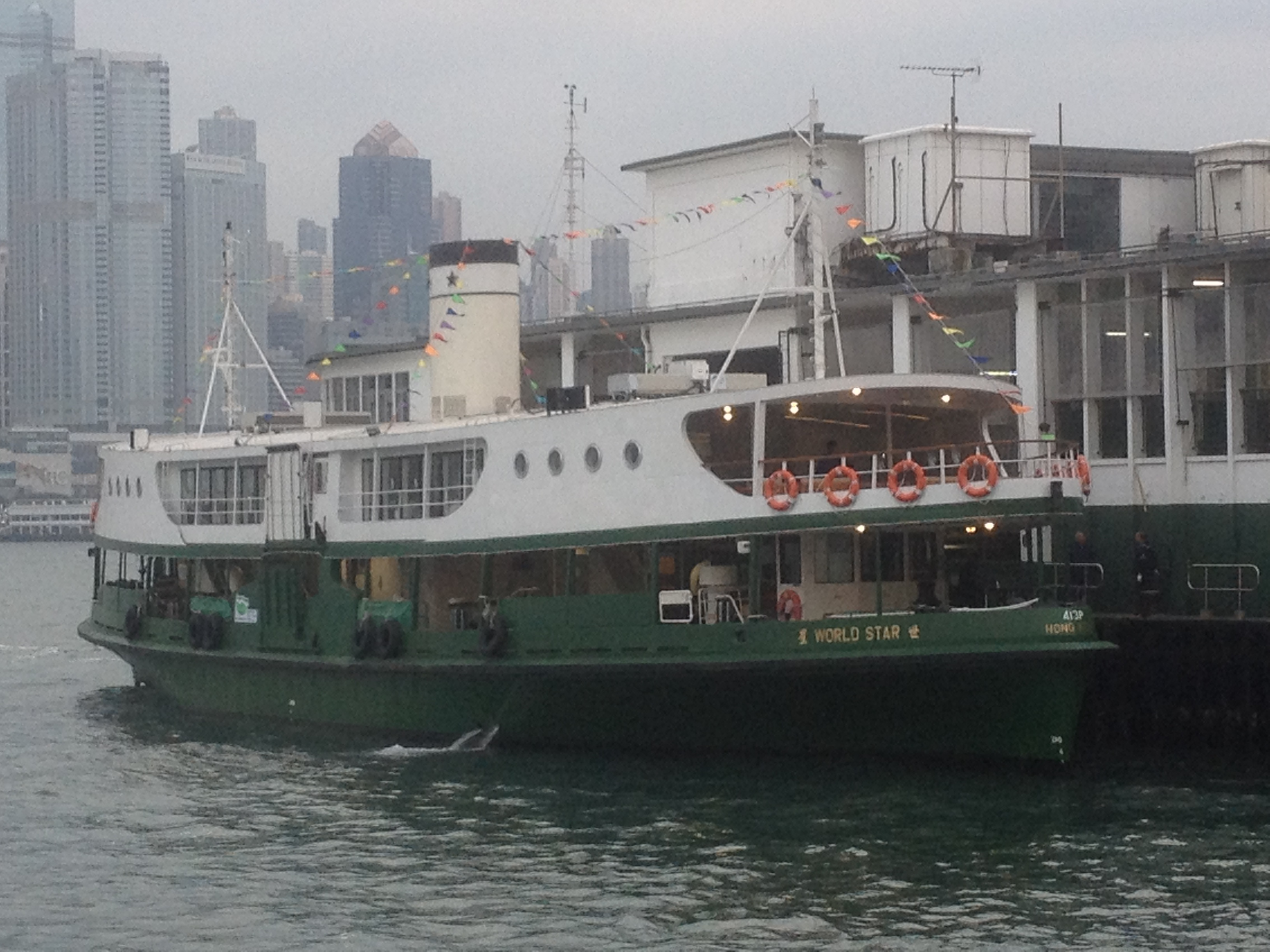 This photo is taken in Tsim Sha Tsui.